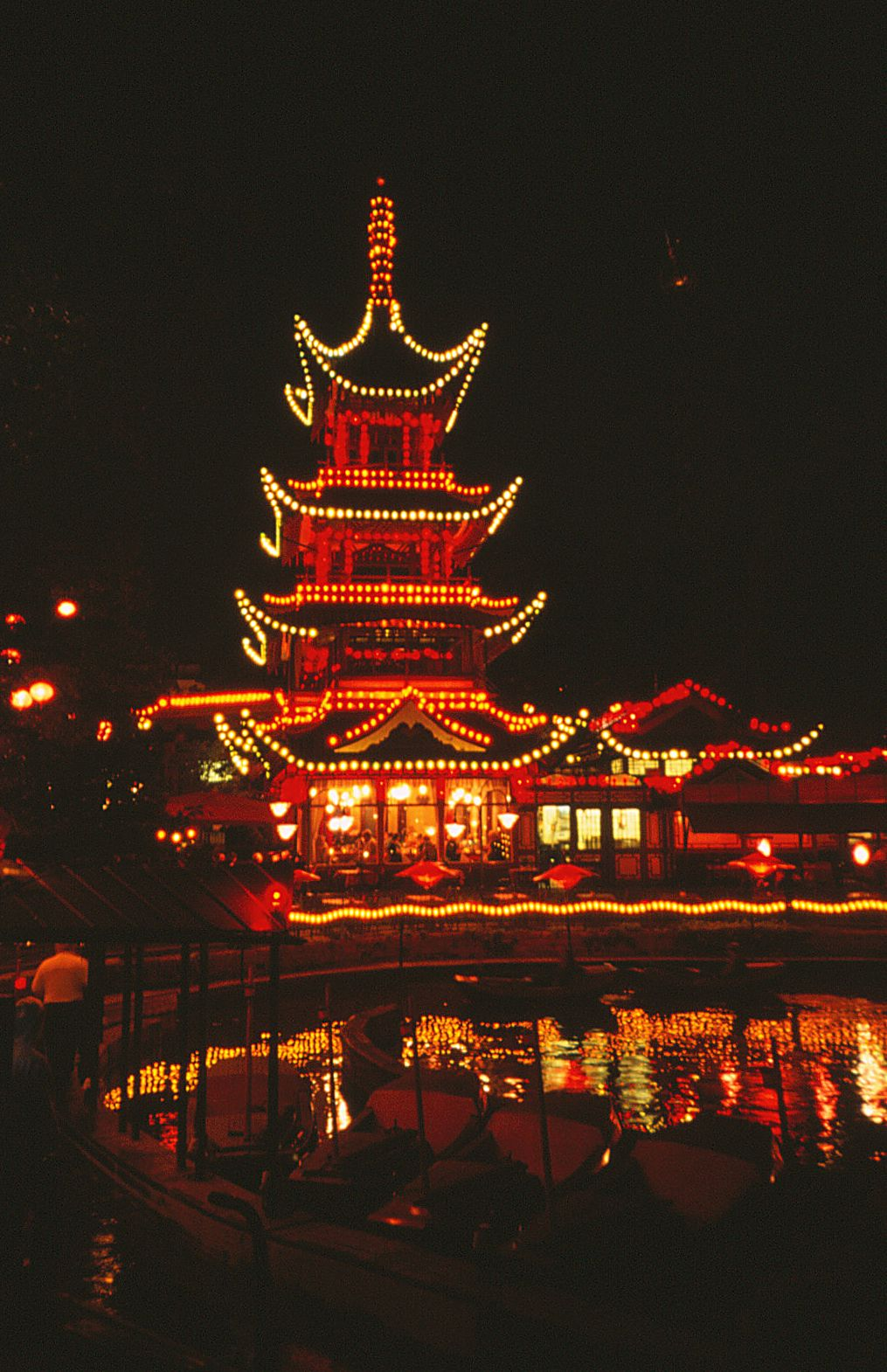 Det japanske Taarn (